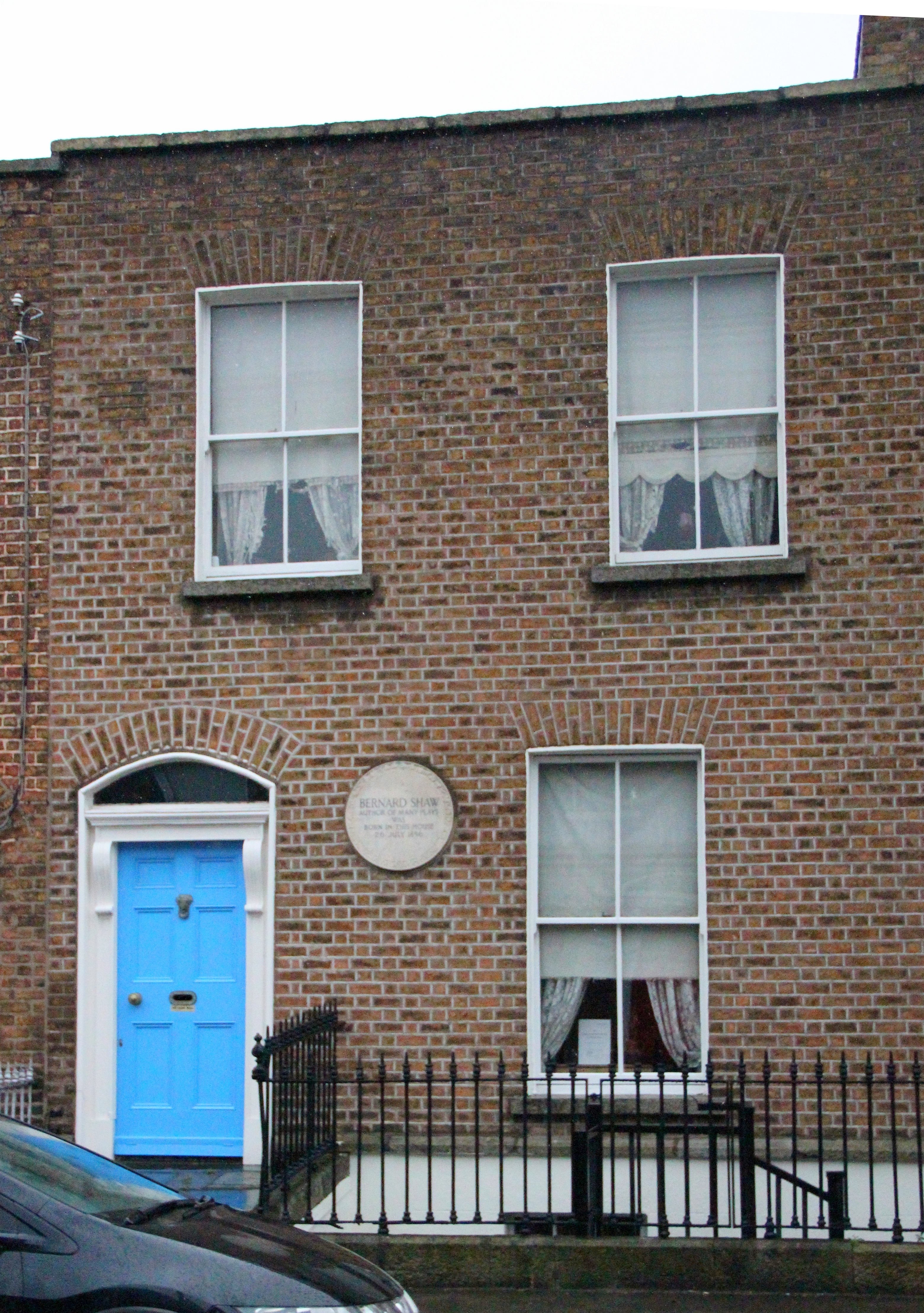 The George Bernard Shaw birthplace, 33 Synge Street, Portobello, Dublin, Ireland. The house is now used as a museum.